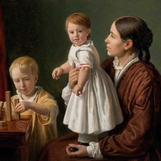 Painting by Constantin Hansen of P.C. Skovgaard's wife Georgia Skovgaard and their children Joakim and Niels. From the Skovgaard Museum.